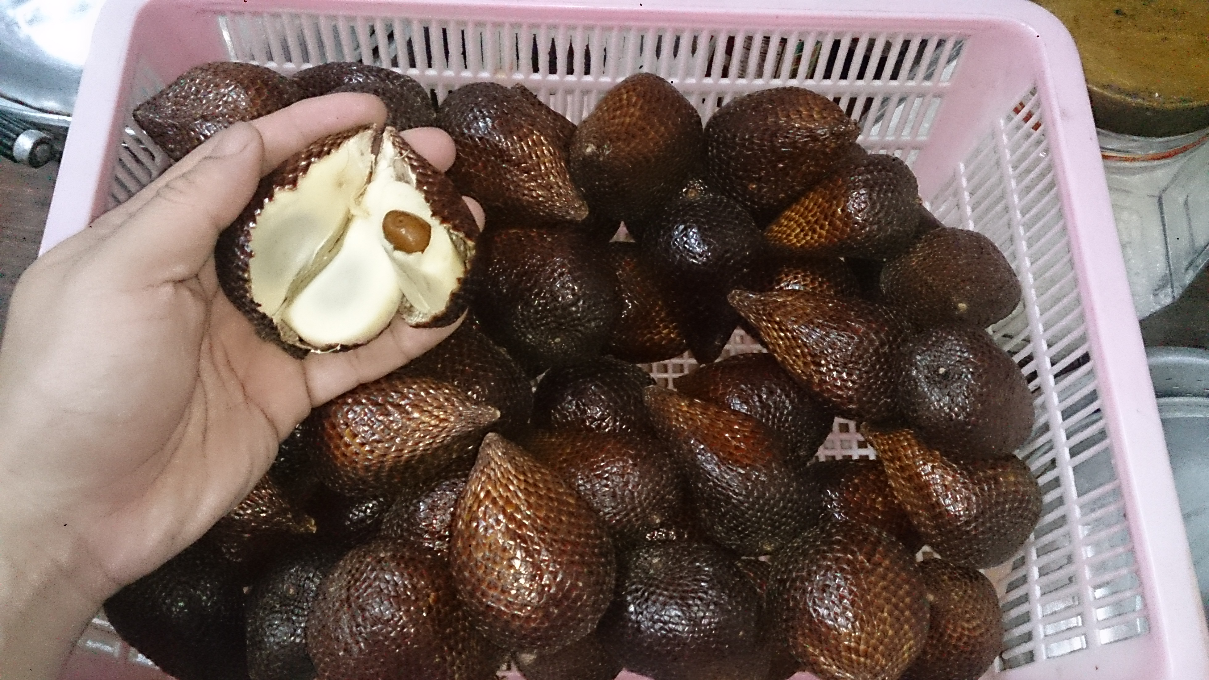 Called "salak", the snake fruit is found in Southeast Asian countries such as Indonesia and Malaysia. The skin is scaly (and like a snake), and the yellow/whitist fruit has a mild sweet (or sour, depending on the variety) taste.